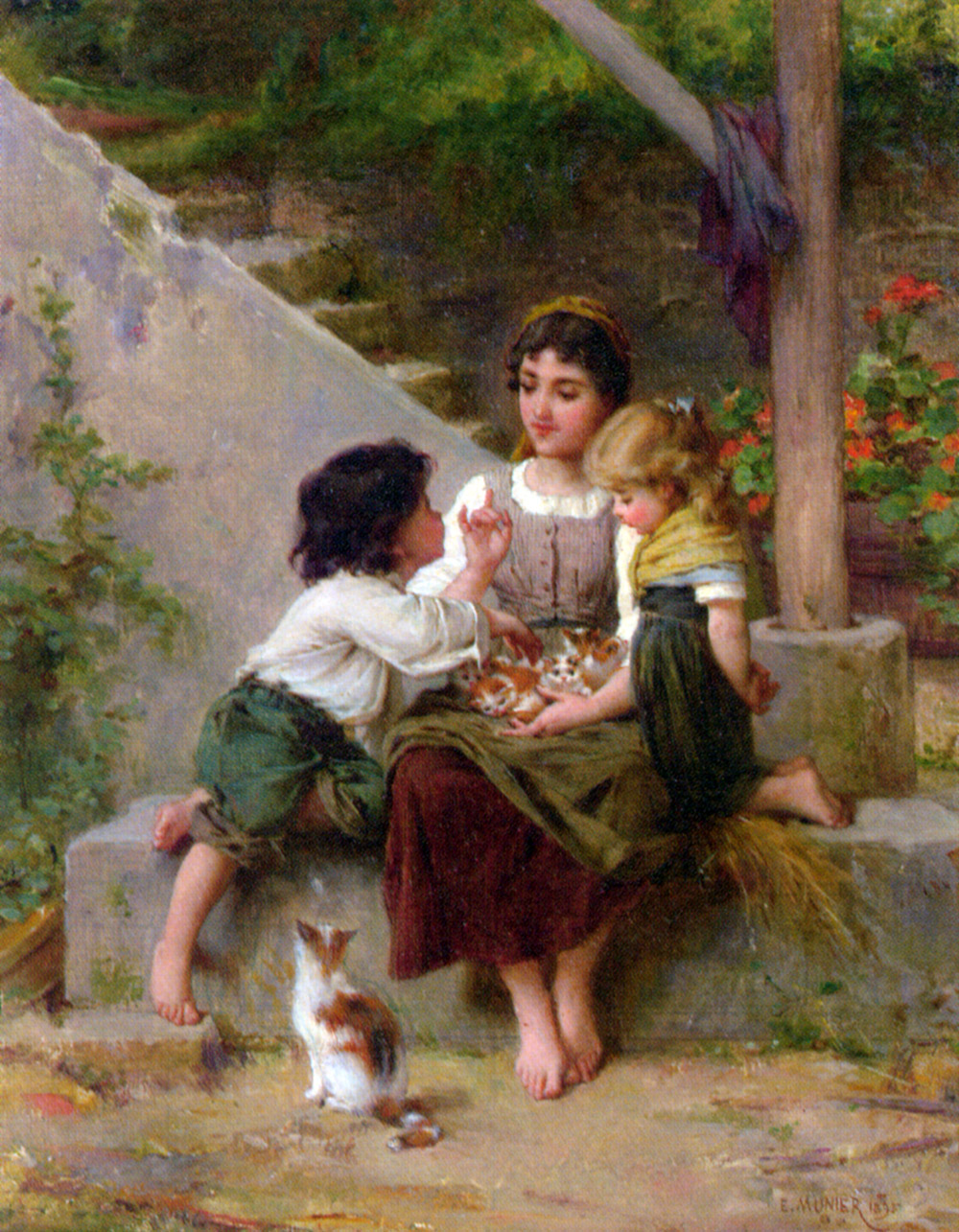 Playing with the Kittens